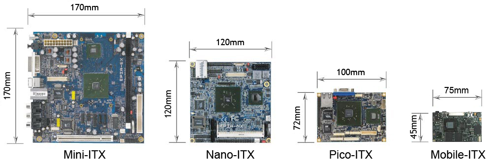 VIA Mainboards Form Factor Comparison